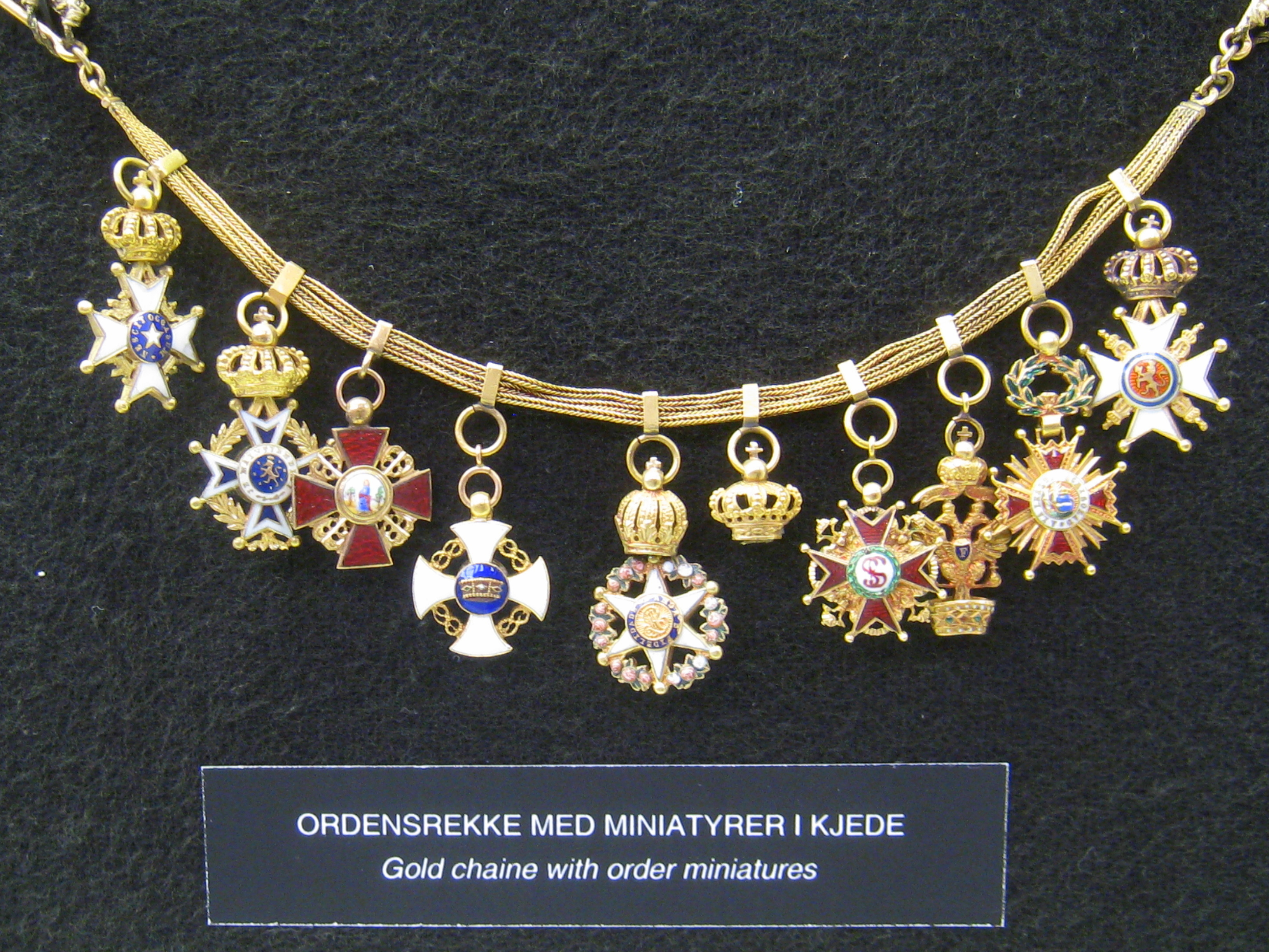 Gold chain with miniature orders, from the collection of Don Pedro Christopherson. In the Fram Museum, Oslo, Norway.